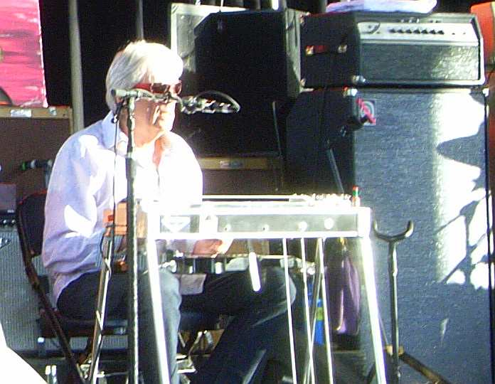 Ben Keith playing lap steel guitar + pedal steel guitar